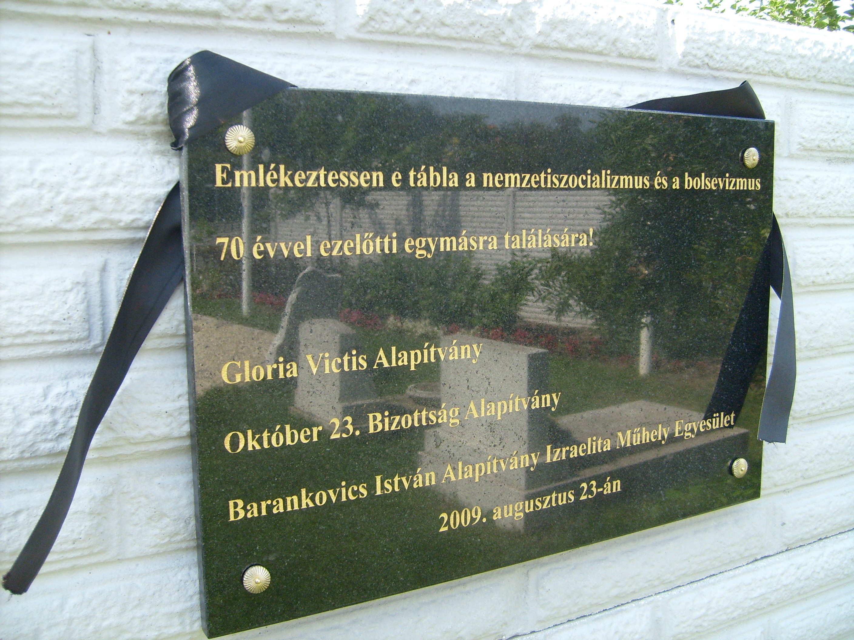 Memorial stone which commemorates the pact sworn between nazi Germany and the communist Soviet Union at the Gloria Victis Memorial